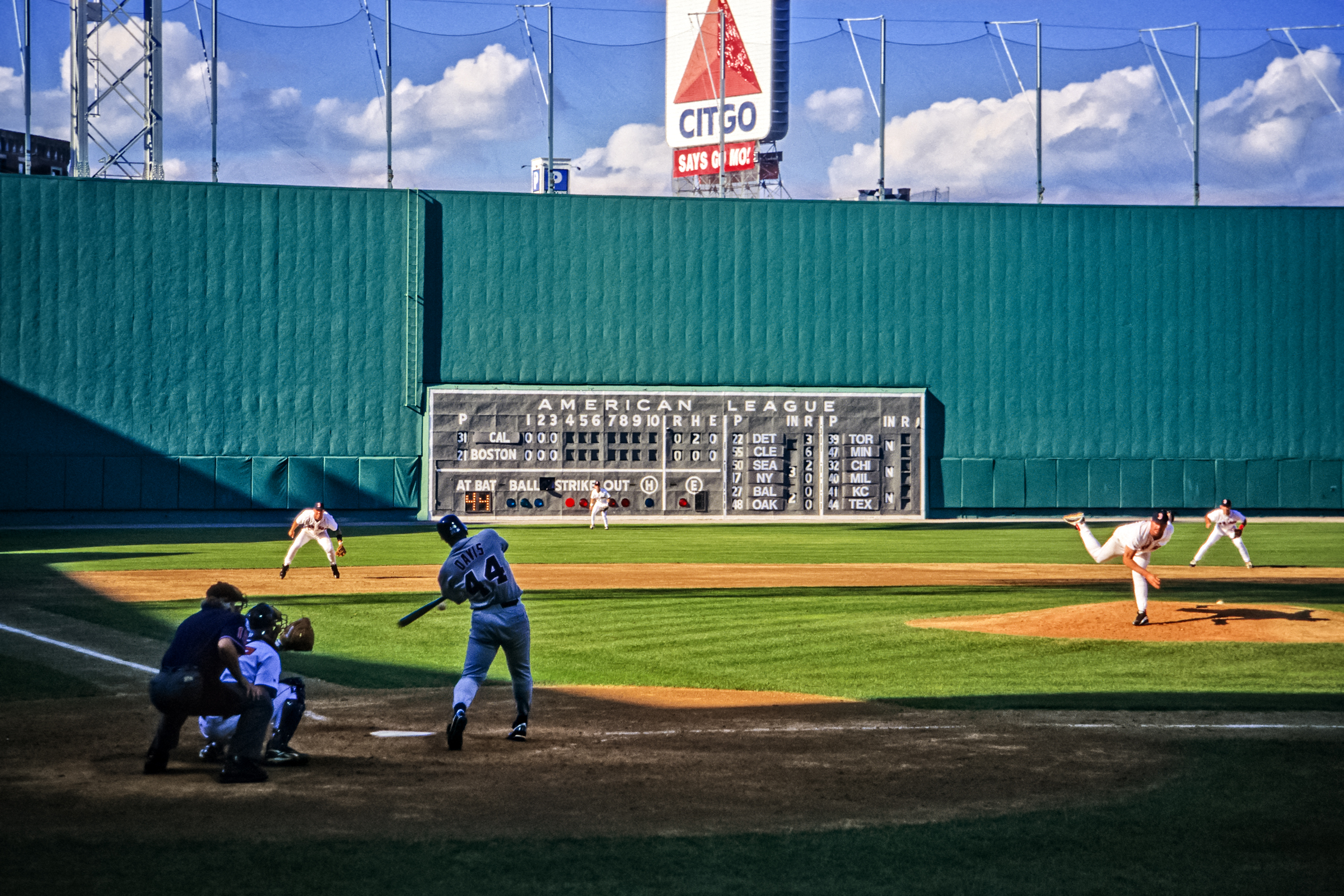 The California Angels meet the Boston Red Sox in a game @ Fenway Park on August 17, 1996. The imposing shadows are due to a 4:00 PM start time to accommodate the national TV audience. Imagine Chili trying to hit against Roger Clemons and deal with the shadows. Check out the box score @